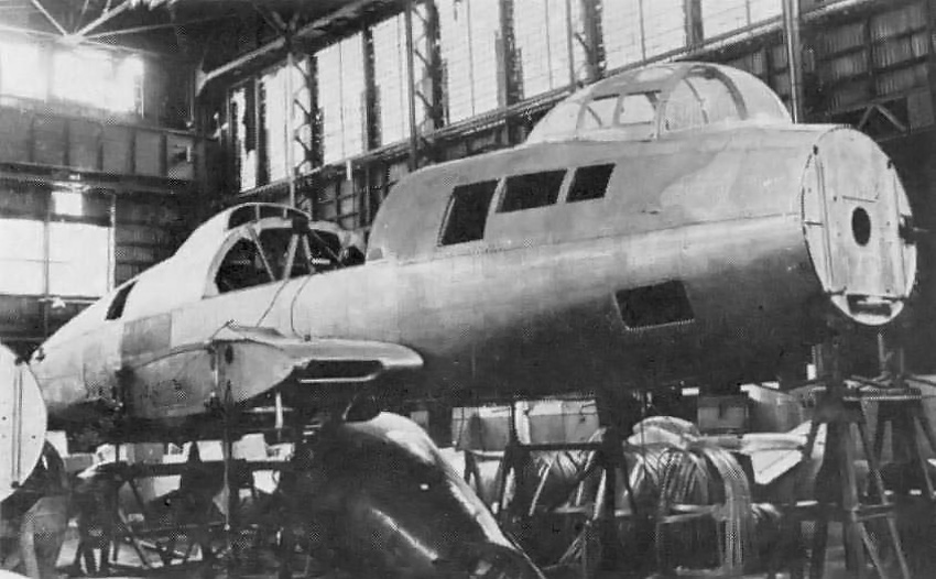 The second prototype of R2y1 keiun in construction.